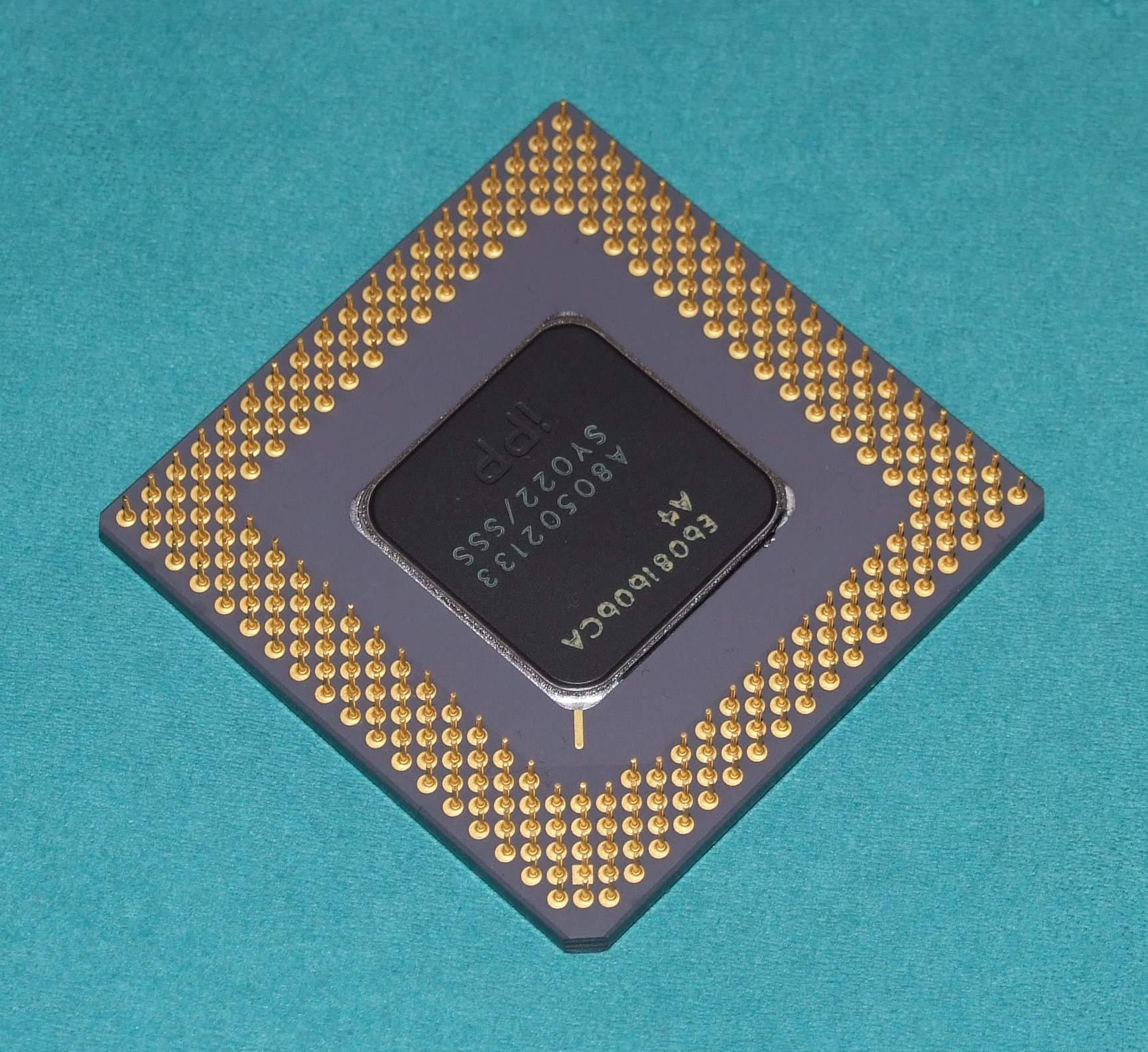 CPU Intel Pentium P54 (133 MHz, Model Numer A80502133[1]).htmlbottom view. (CPGA for Socket 7)